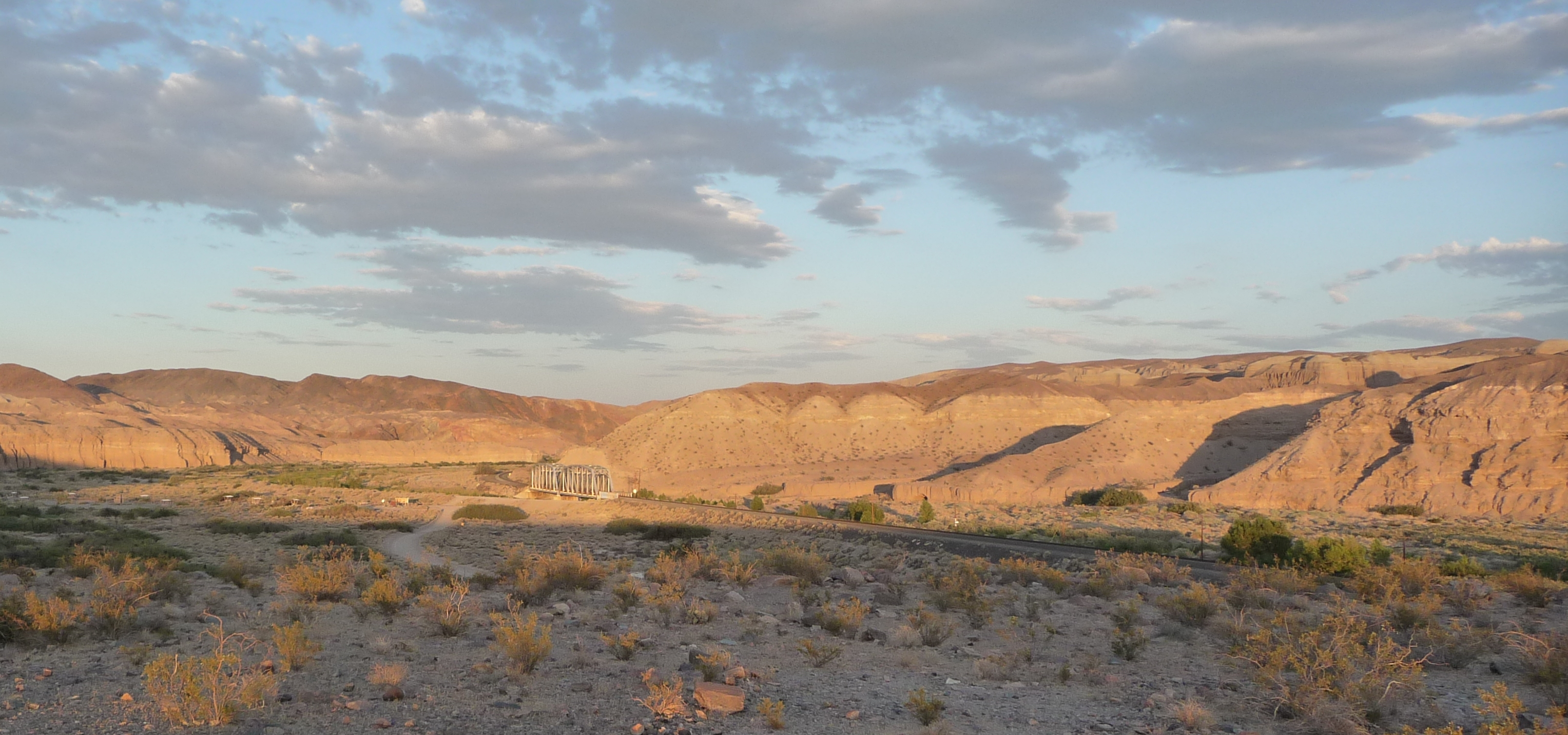 Afton Canyon Natural Area in Afton Canyon — in the Mojave Desert, San Bernardino County, Southern California. Sedimentary formations are from prehistoric Lake Manix. Railroad trestle crosses the Mojave River.